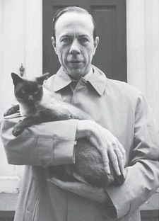 Mathematician Andrew Mattei Gleason with family cat Fred